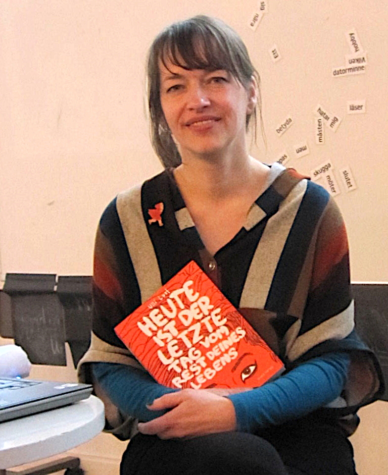 Ulli Lust at "Kulturnatt Stockholm", 24 April 2010.